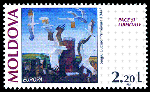 Spring 1944 (1978). S. Cuciuc